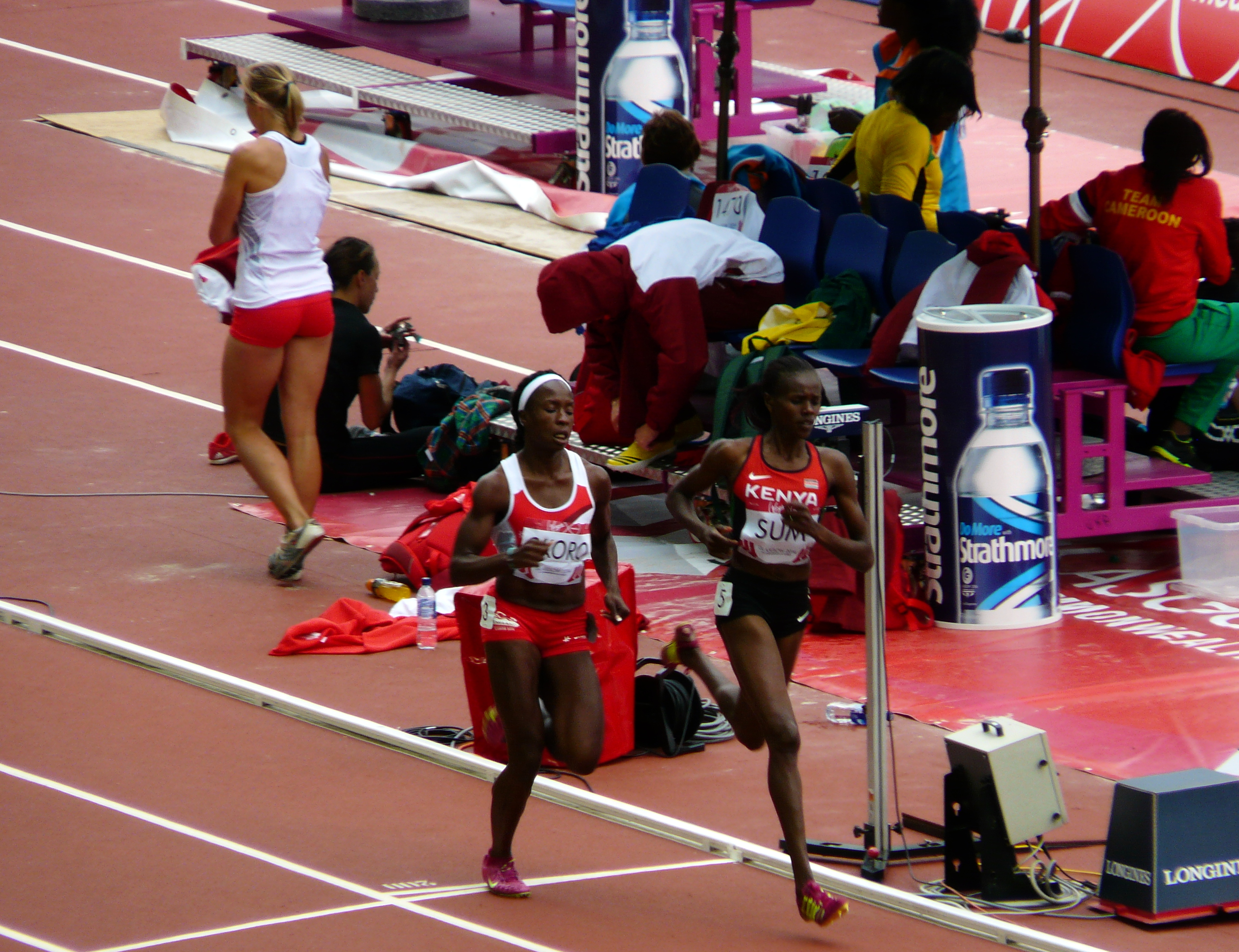 Hampden Park Glasgow Commonwealth Games Day 7 Athletics Morning Session Wednesday 30th July 2014. Eunice Jepkoech Sum & Marilyn Okoro